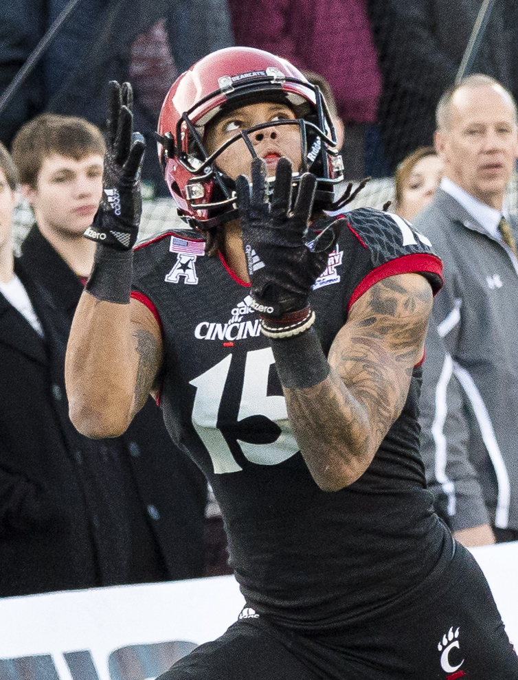 Chris Moore (#15 in black) catches a pass for Cincinnati against coverage from Donovan Riley (#2 in white) in the 2014 Military Bowl held at Navy-Marine Corps Memorial Stadium, in Annapolis, Md., Dec. 27, 2014. Virginia Tech defeated Cincinnati 33-17. DoD photo by Army Staff Sgt. Sean K. Harp/Released